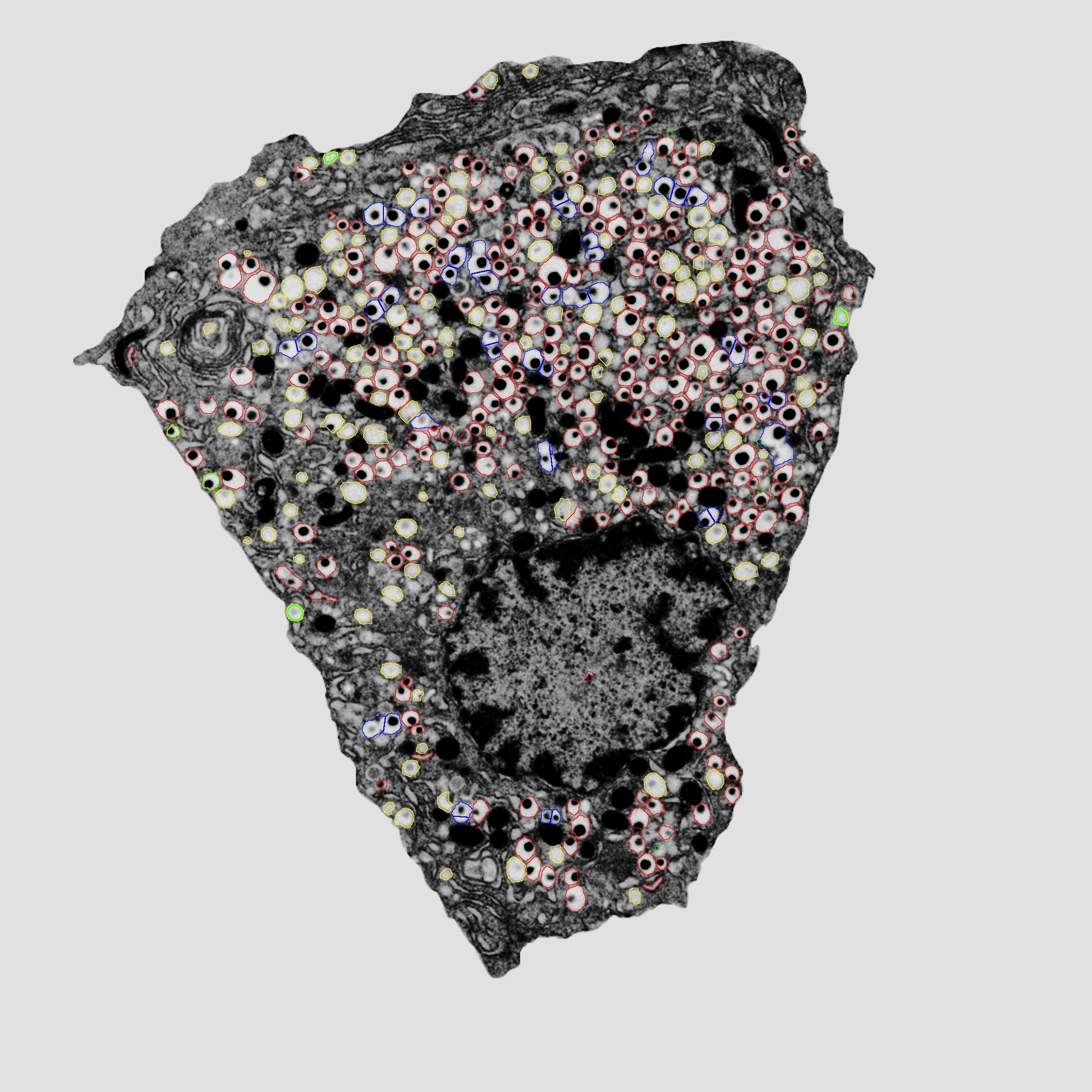 Photomicrograph of a sliced rat beta cell that has been processed with the modified NASA imaging technology. Insulin granules are the dark black spots surrounded by a white area called a halo. Large cells have hundreds of insulin granules. The colored borders around the granules are labels added to identify them and classify how they appear.